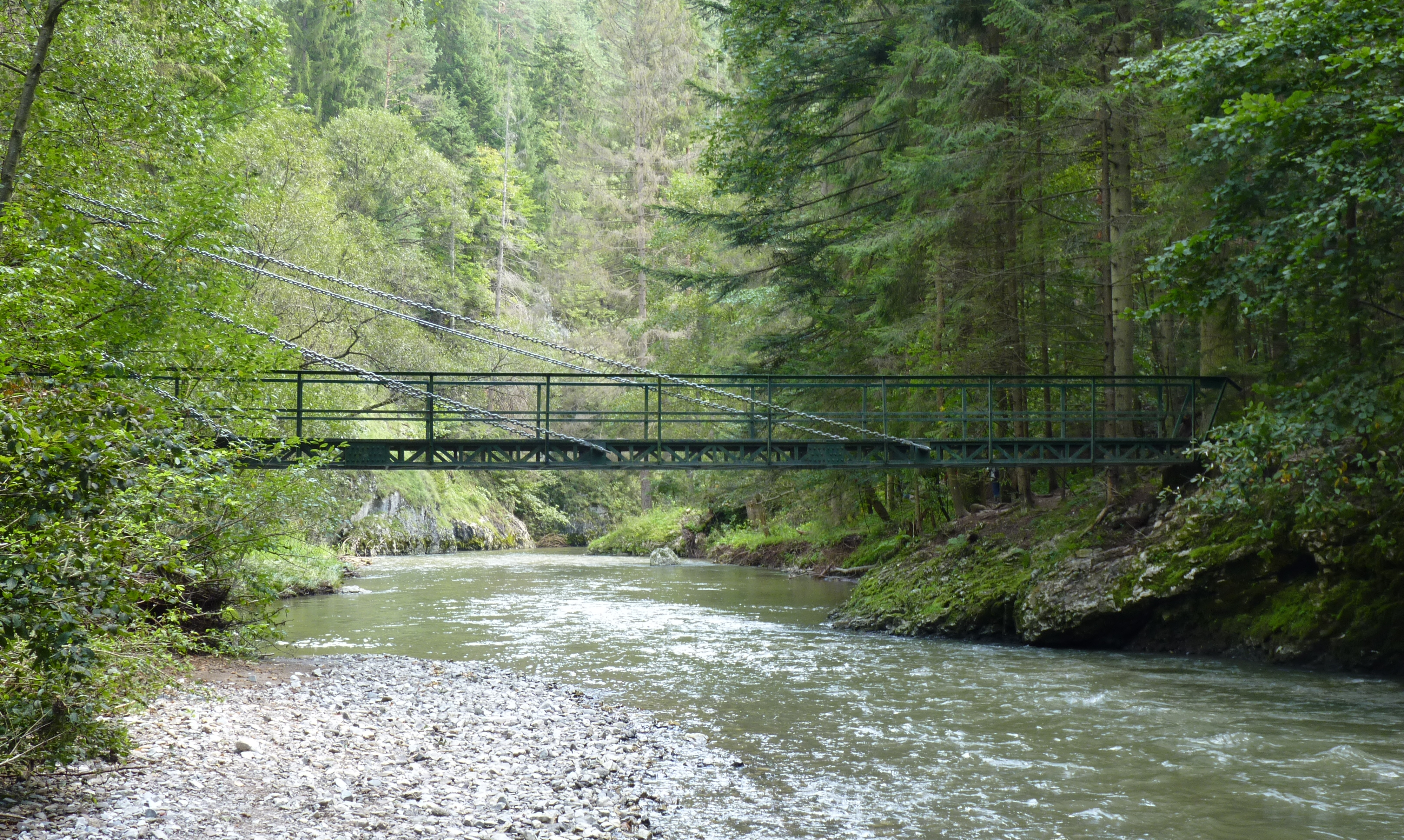 Prielom Hornádu. Slovak Paradise, Slovakia